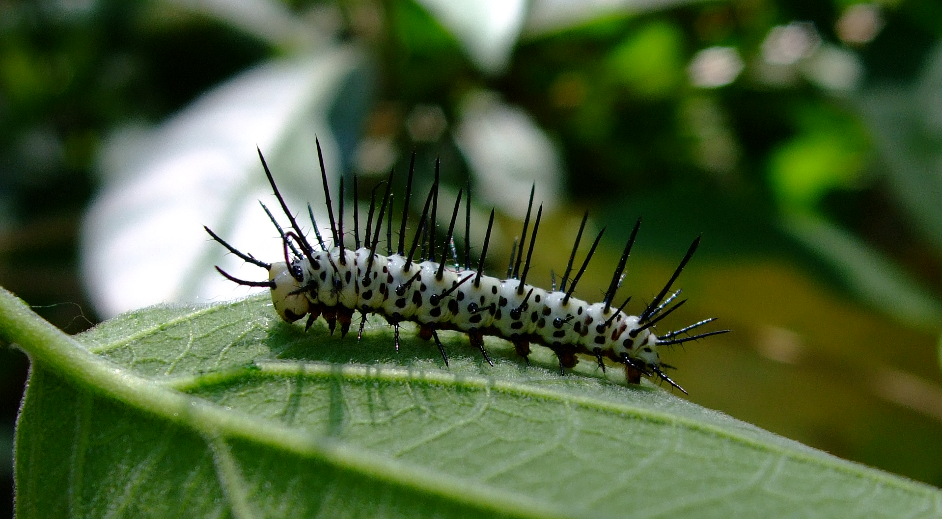 A Zebra Longwing (Heliconius charitonius) caterpillar